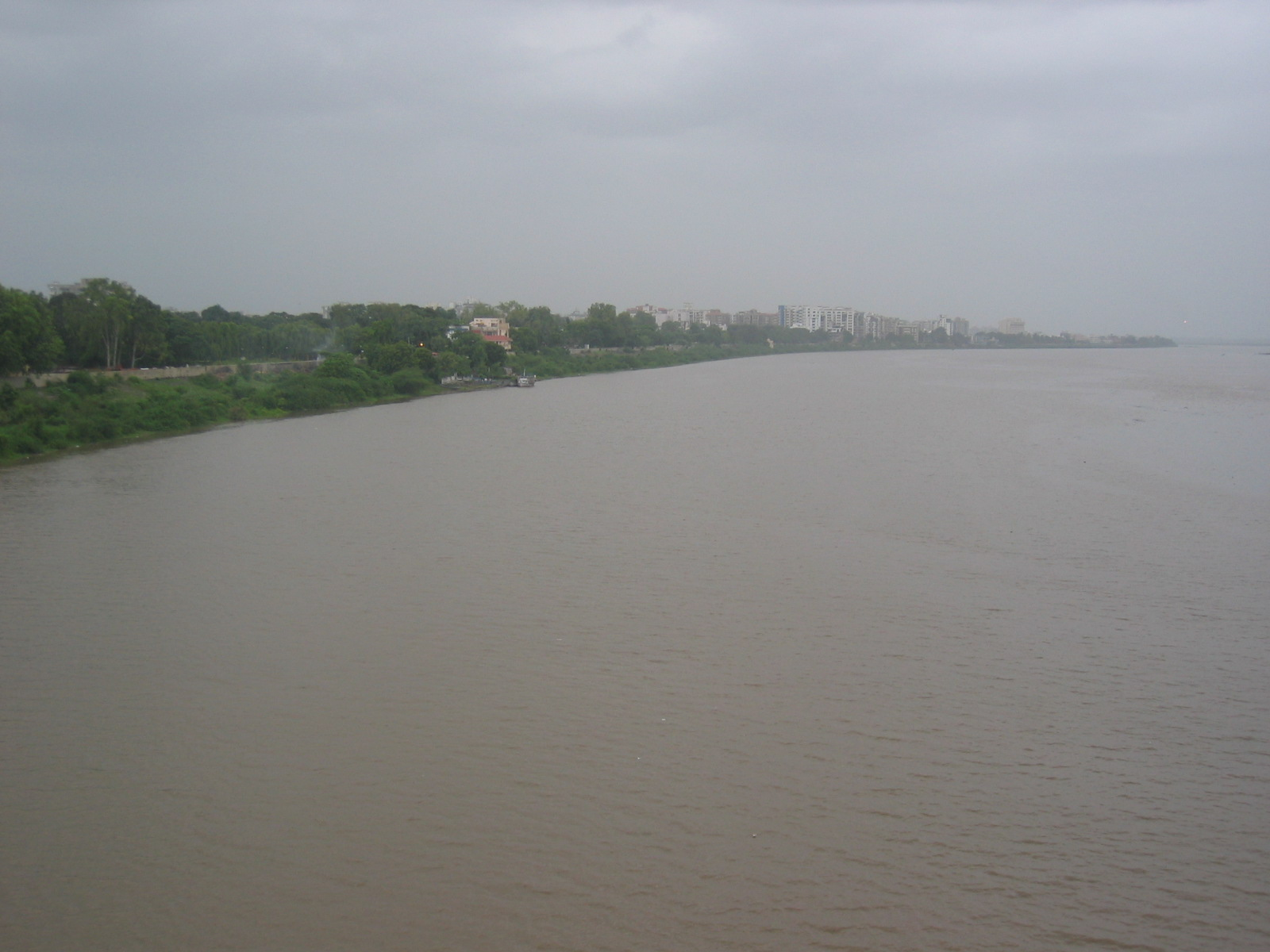 Tapi River flowing over the banks. Sharad Rajput. Tapi River is flowing back in monsoon